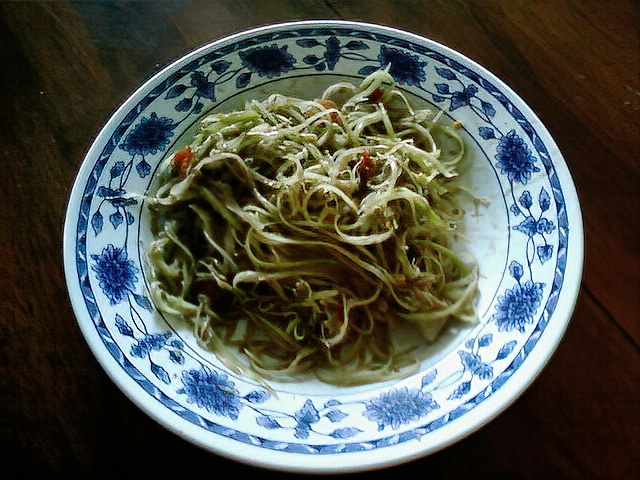 Papaya Salad, an unripe papaya seasoned with lime juice and peppers with a fermented sauce